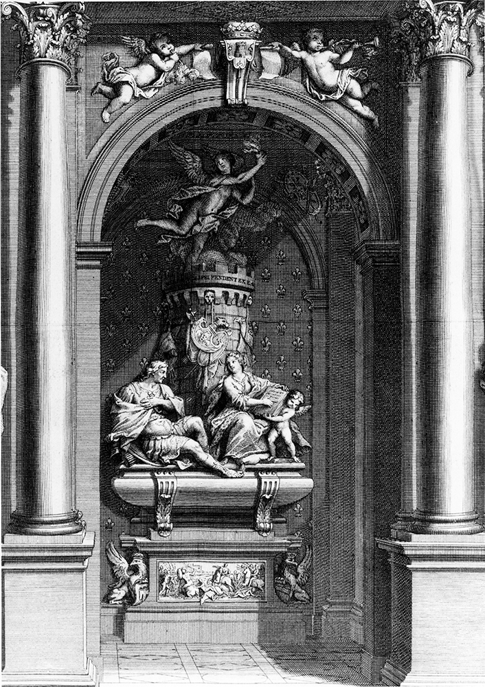 Pierre Le Gros the Younger: project for the tomb monument for the duc de Bouillon and his family. Detail of an engraving by Benoît Audran the Elder after a drawing by Gilles-Marie Oppenordt, published 1708. The monument was to be errected in Cluny Abbey, but never was.